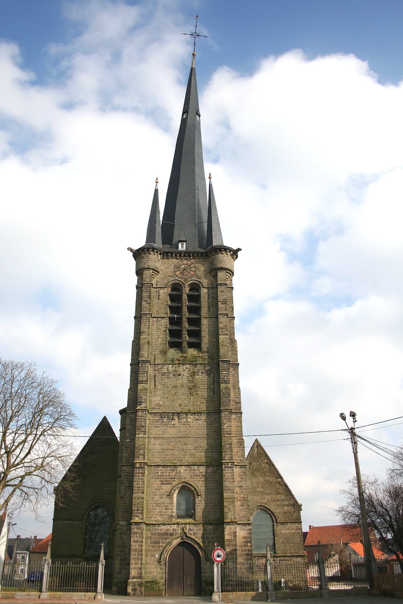 Pommerœul (Belgium), place Hautchamp - The Our-Lady church (XIII/XVIIth centuries) and his squat bell tower (XVth century - 1m80 meter from where it would stand if the tower were perfectly vertical).